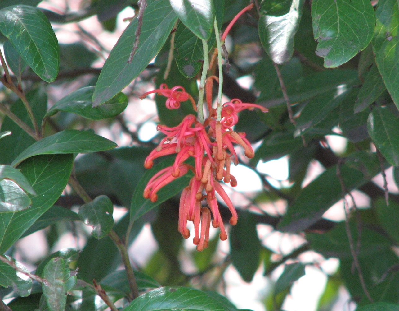 Grevillea victoriae subsp. nivalis (cultivated, labelled), Burnley Gardens, Burnley, Victoria, Australia